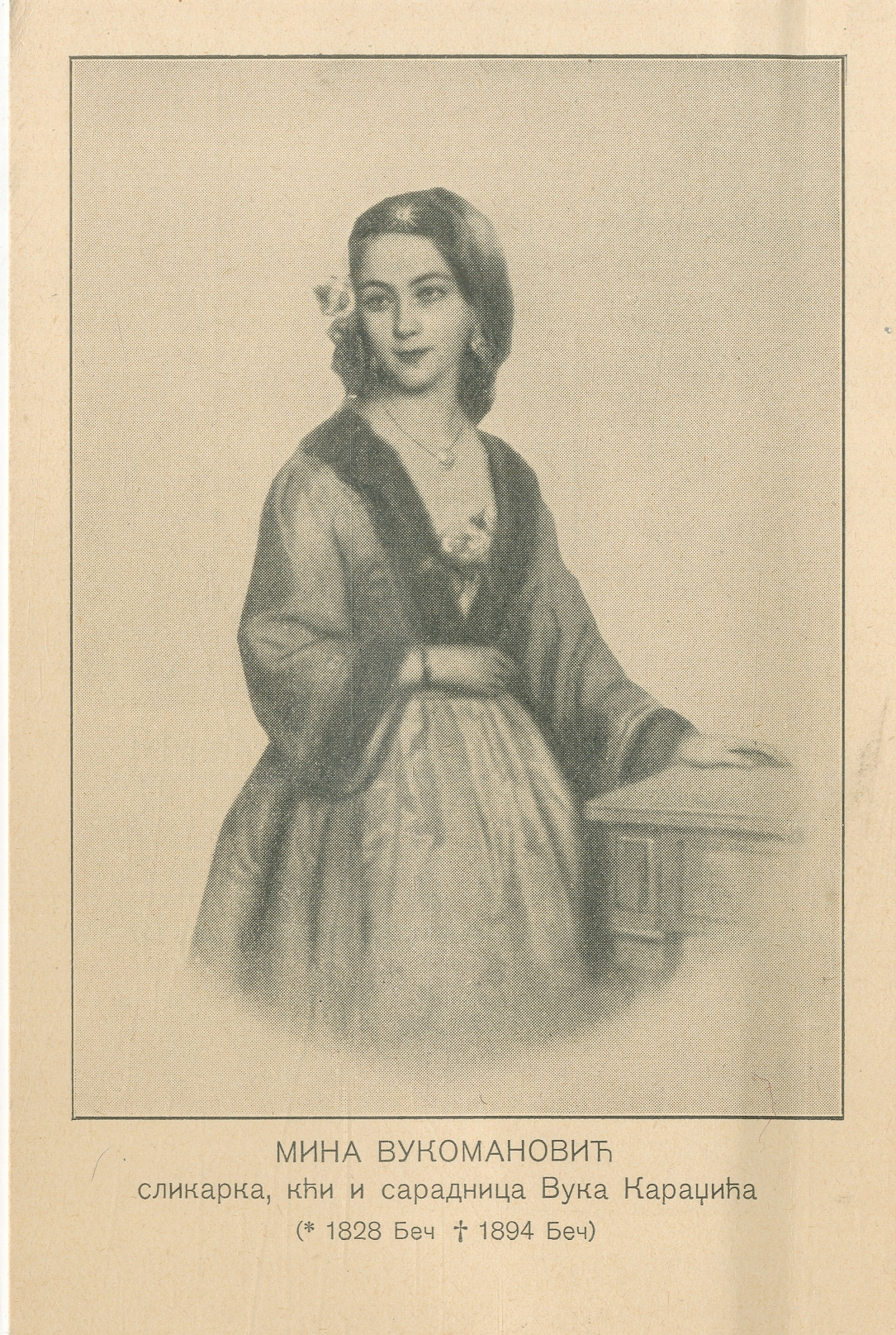 Mina Karadžić.